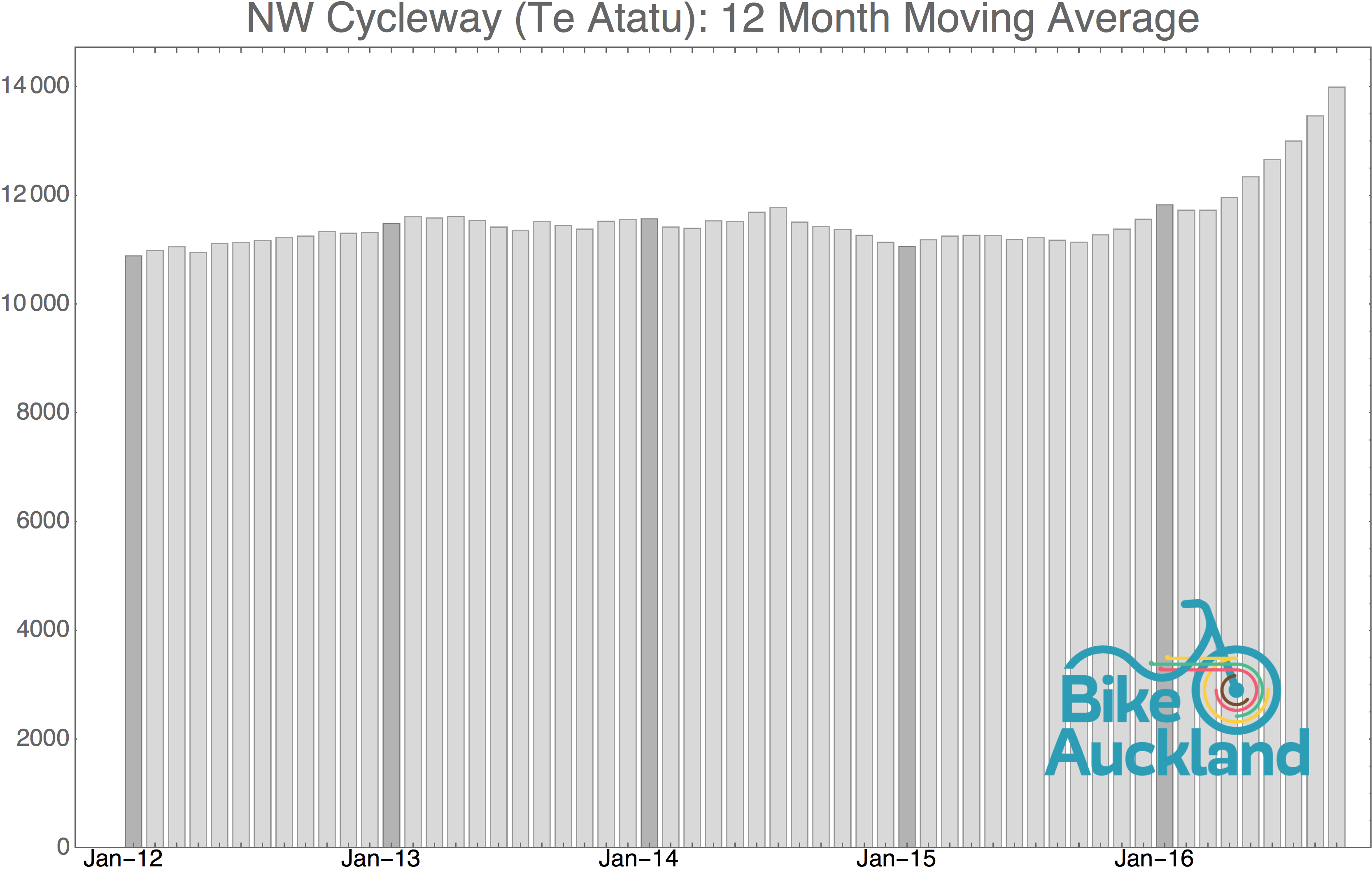 Bike Auckland representation of Auckland Transport automatic cycle counter data, represented as a 12 month rolling average. Counted at the Te Atatu suburb counter.